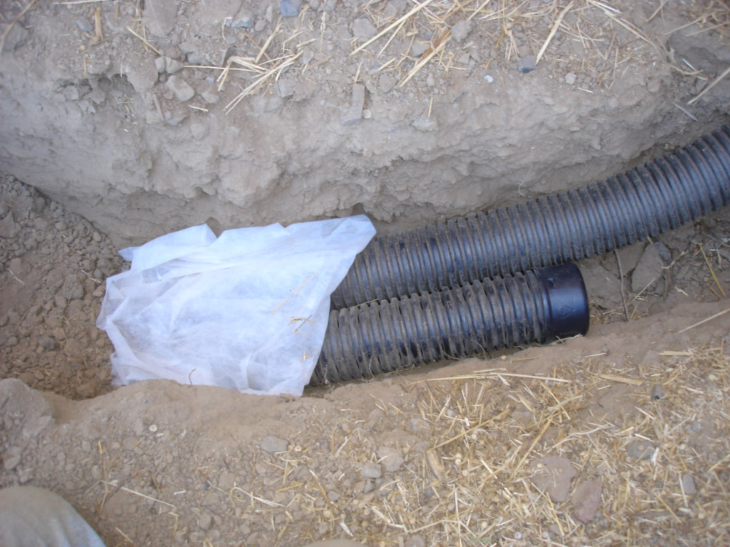 Top view of French Drain: Base Rock, Drain Pipe, more Base Rock, landscape Fabric, cover with dirt